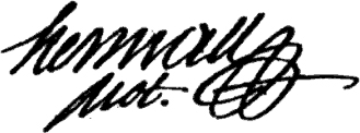 Signatures of Armand Herman, Judge of the Revolutionary Tribunal.